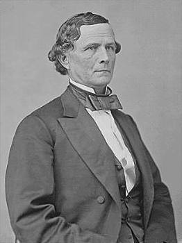 Jones Michell Withers (1814-1890)